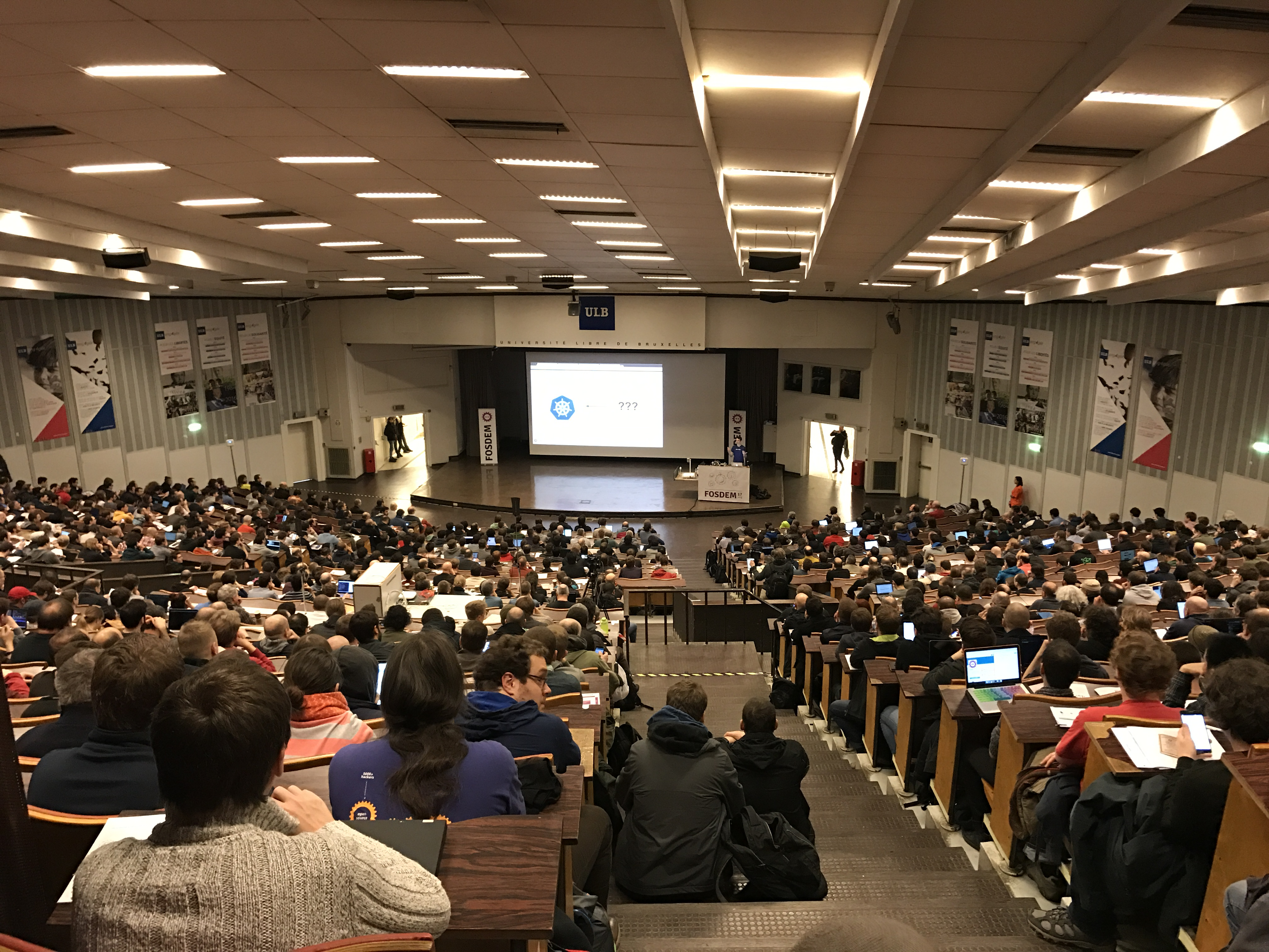 FOSDEM 2017 in Room J during Keynote of Brandon Philips